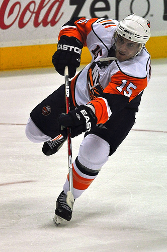 An image (action shot) of Jeff Tambellini.